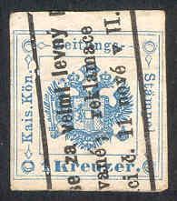 Newspaper stamp of Austro-Hungary empire, 1877, 1 kreuzer, newspaper print-cancelled